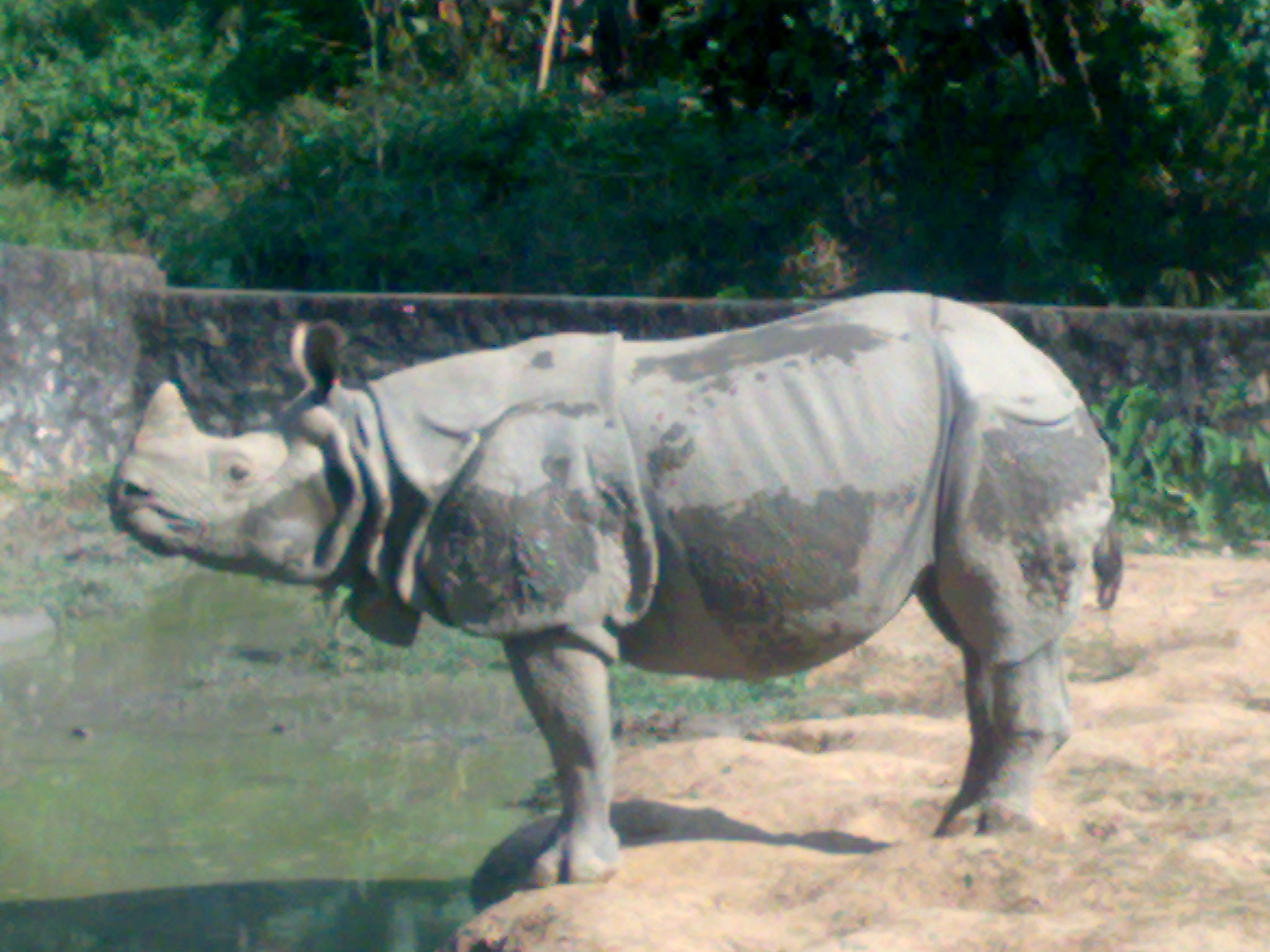 The great Indian one-horned Rhino photographed in Assam State Zoo, Guwahati